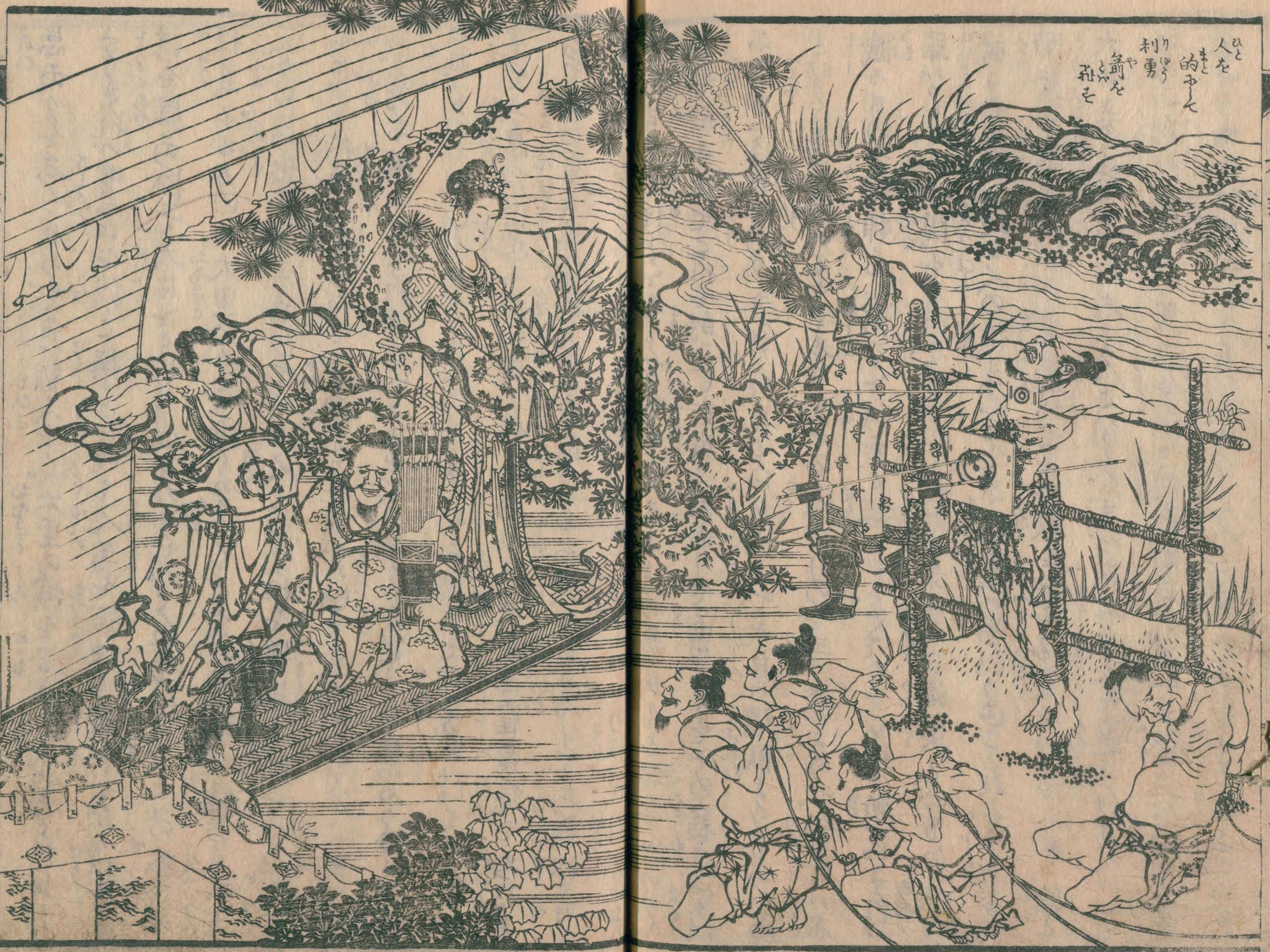 In the Japanese novel Chinsetsu Yumiharizuki, Riyū, left side of the image, was a master archer, sometimes killed a peasant by a bow.